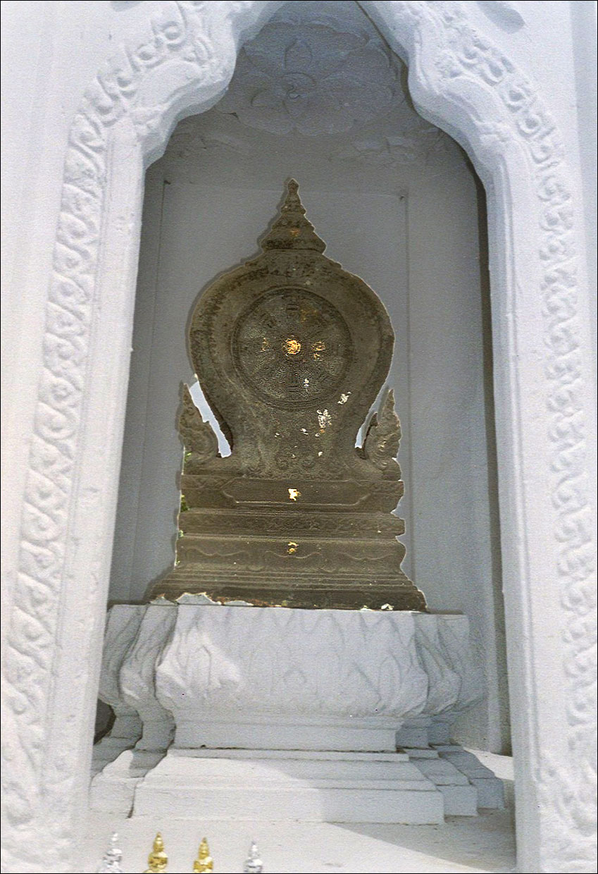 "Crowned" Bai Sema (sacred boundary stones), Wat Rajanadda, Bangkok, own photo June 2002 (de: Bai Sema (Grenzsteine) im Wat Rajanadda, Bangkok)